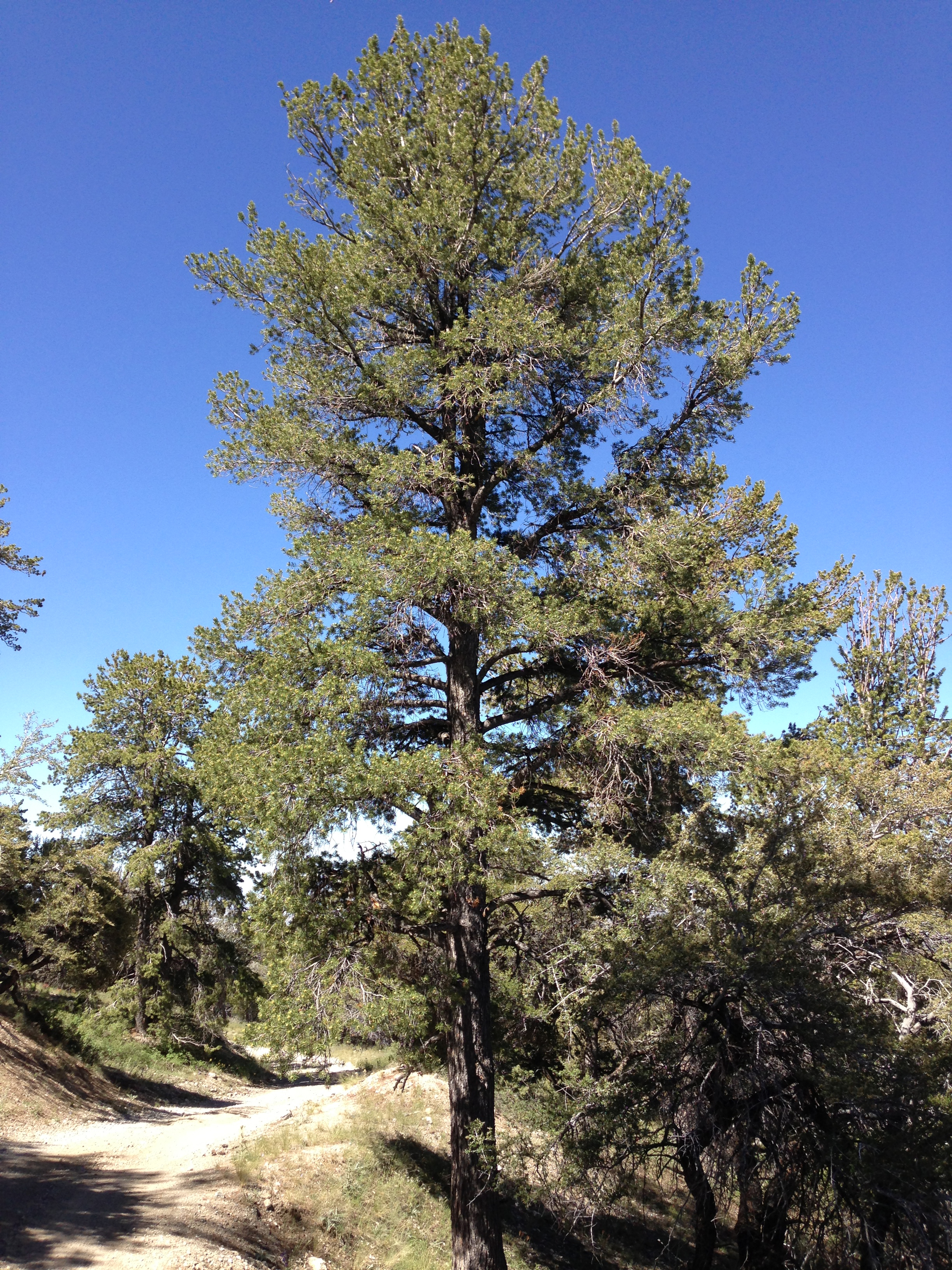 Pinus flexilis (Limber Pine) on Spruce Mountain, Nevada